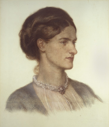 The Countess of Carlisle, depicted by Dante Gabriel Rossetti. Coloured chalk on grey-green paper.